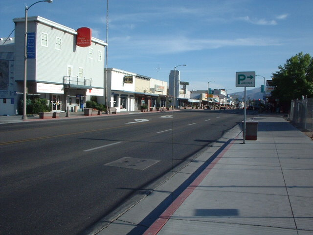 Downton Bishop in California.